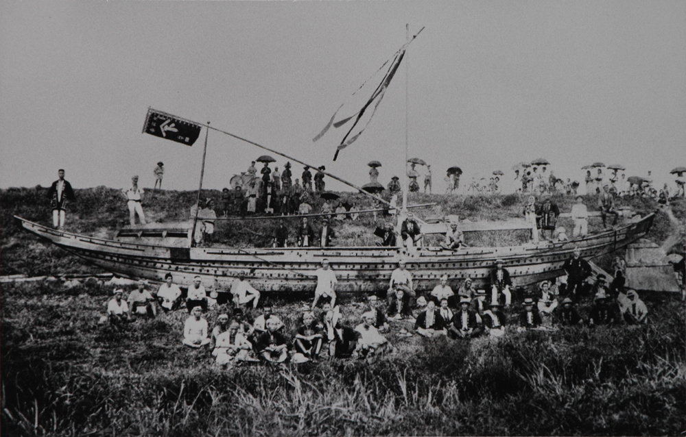 Historical photo of takasebune and its crew